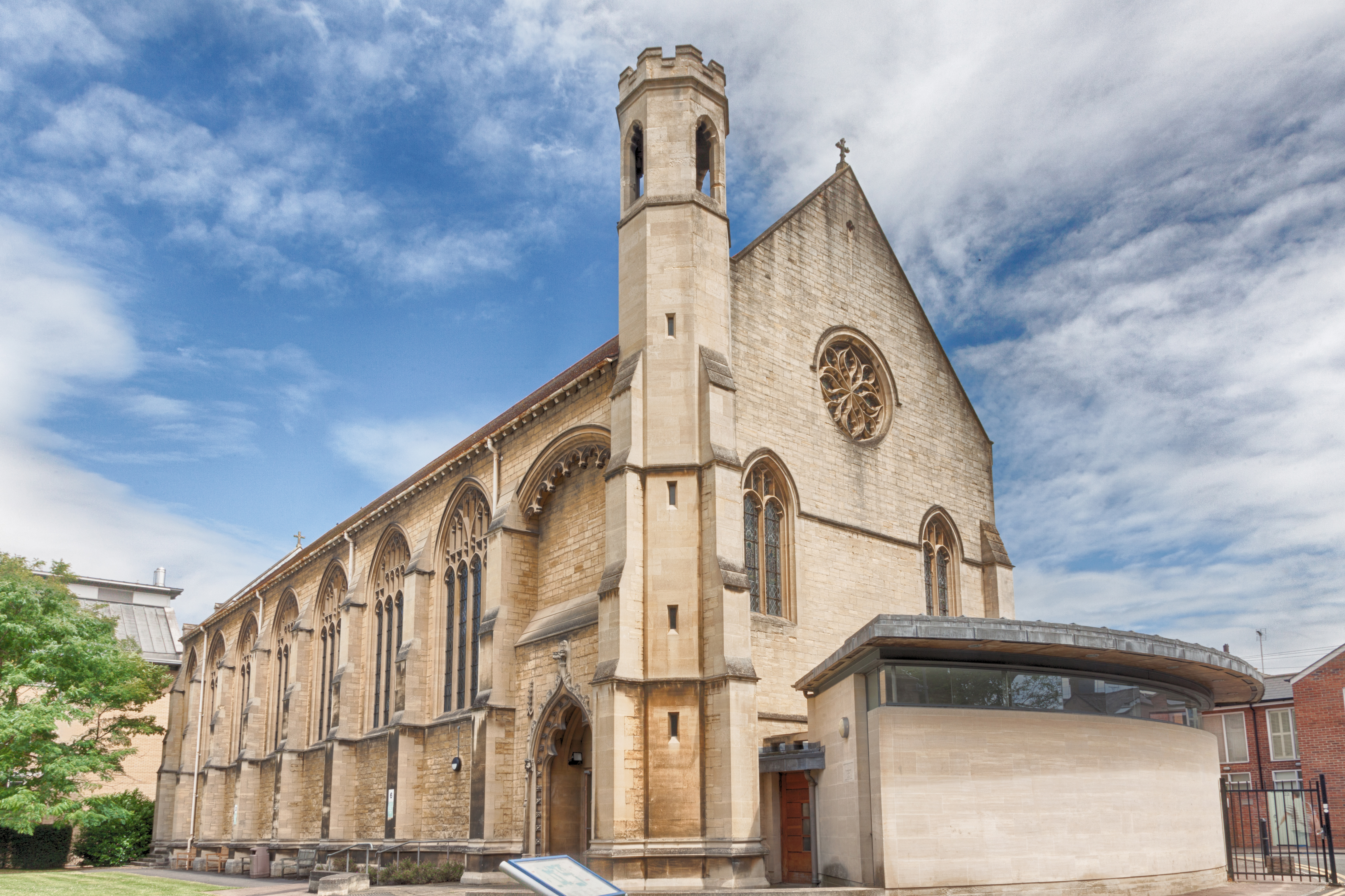 Photograph of Francis Close Hall Campus Chapel, Cheltenham